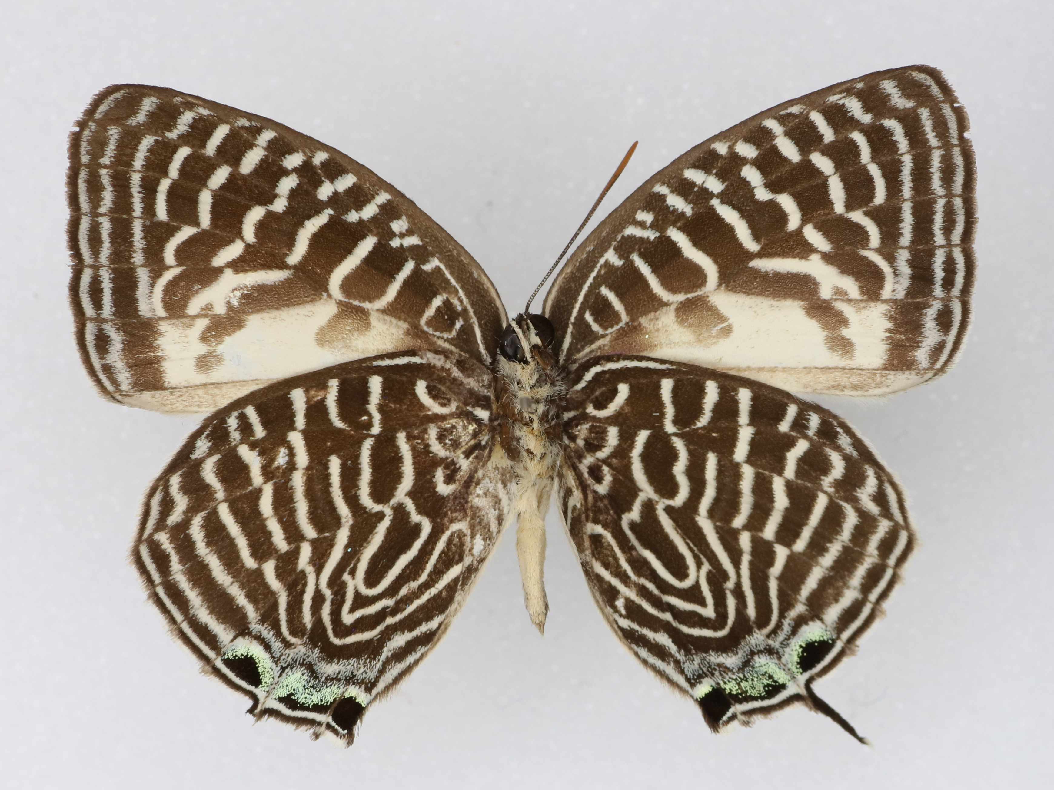 A ventral photograph of Arhopala argentea verityae, Tennent & Rawlins, 2010, a Holotype